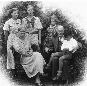 Catharine Jones Cadbury, William Warder Cadbury and their three daughters and adopted son James. 粵語: 嘉惠霖醫生夫婦同三個女仲有養子